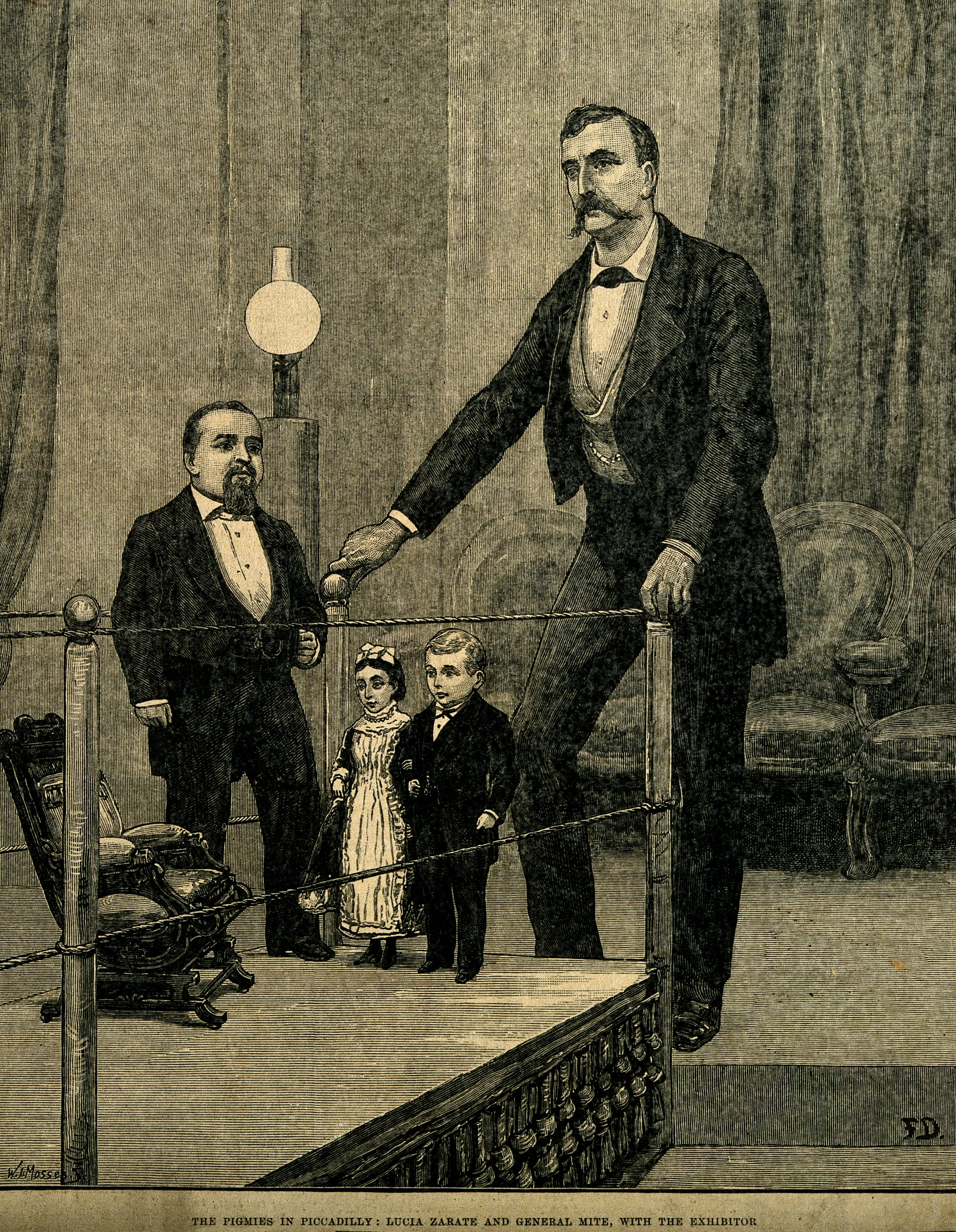 Lucia Zarate and General Mite, two dwarfs, with a giant and their exhibitor. Wood engraving by W.I. Mosses after F. Dadd. Iconographic Collections Keywords: Frank Dadd; ic; General Mite; W.I. Mosses; Lucia Zarate